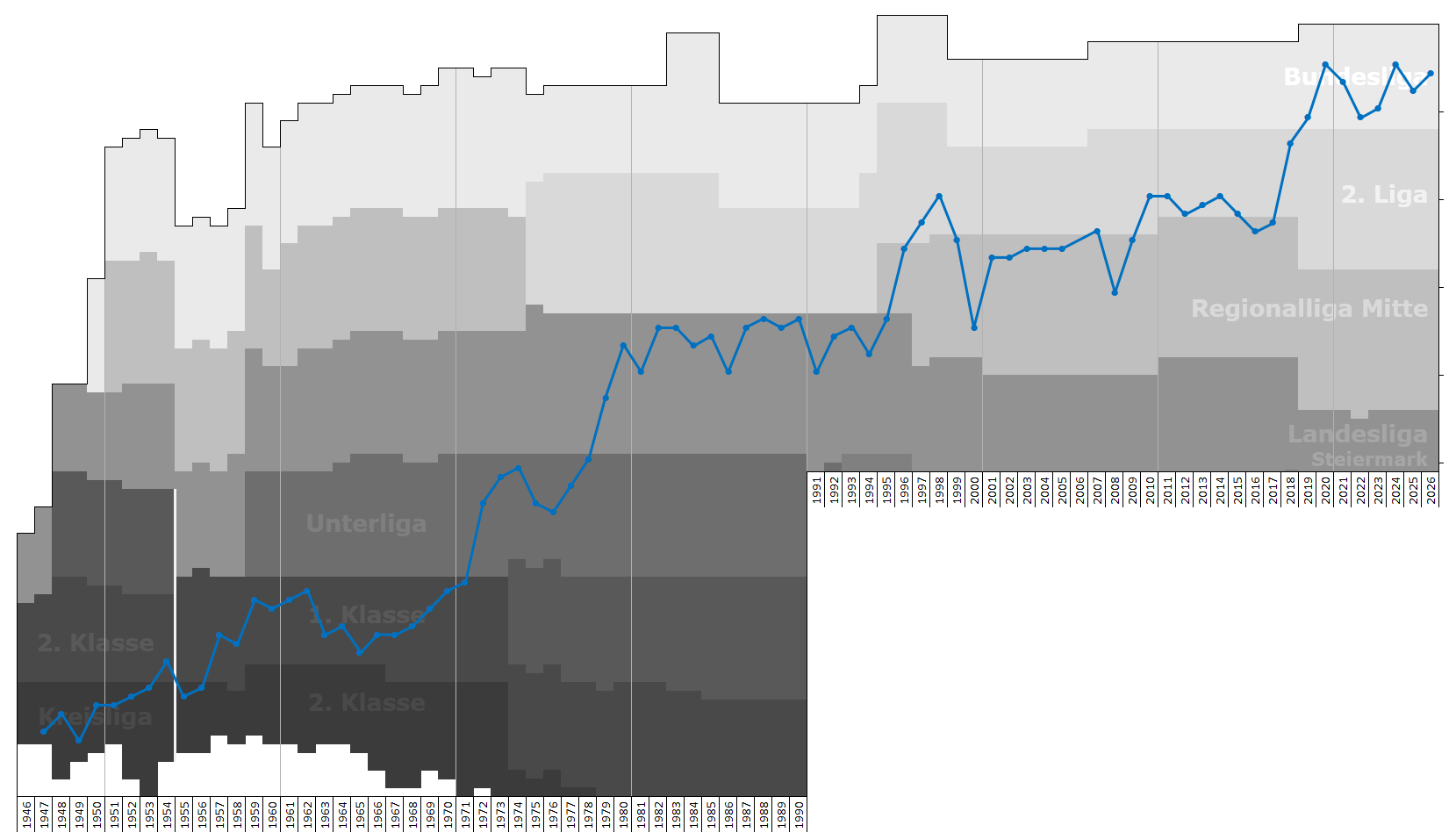 Chart of end-season table positions of Hartberg in the Austrian football league system. Data source: RSSSF, , regiowiki.at, tsv-hartberg-fussball.at, wikipedia